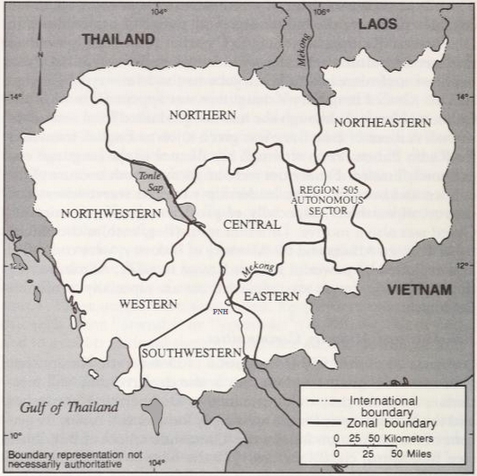 Khmer Rouge Administrative Zones for Democratic Kampuchea, 1975-78.